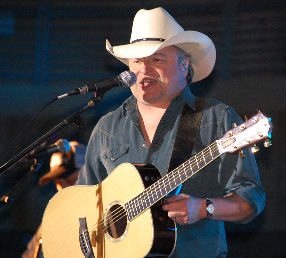 Playing such hits as “Bubba Shot the Jukebox,” “Blame It On Texas,” “It Sure Is Monday,” and “Old Flames Have New Names,” country singer Mark Chesnutt entertained Soldiers, family members and civilians at the Super Gym at U.S. Army Garrison Humphreys in April 9th, 2010.